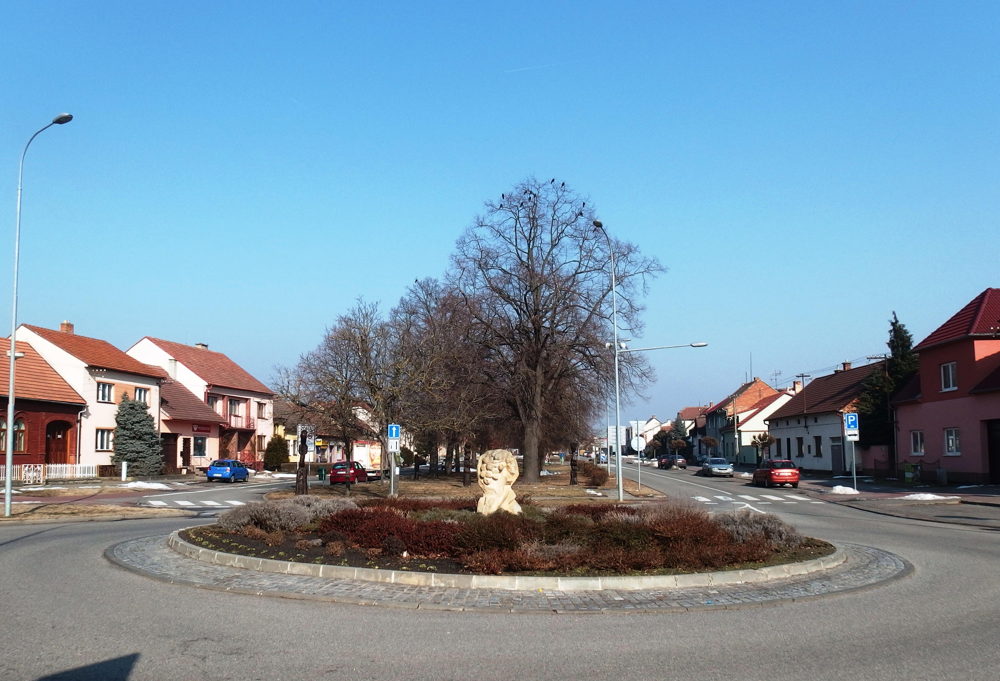 Lužice, Hodonín District, Czech Republic.